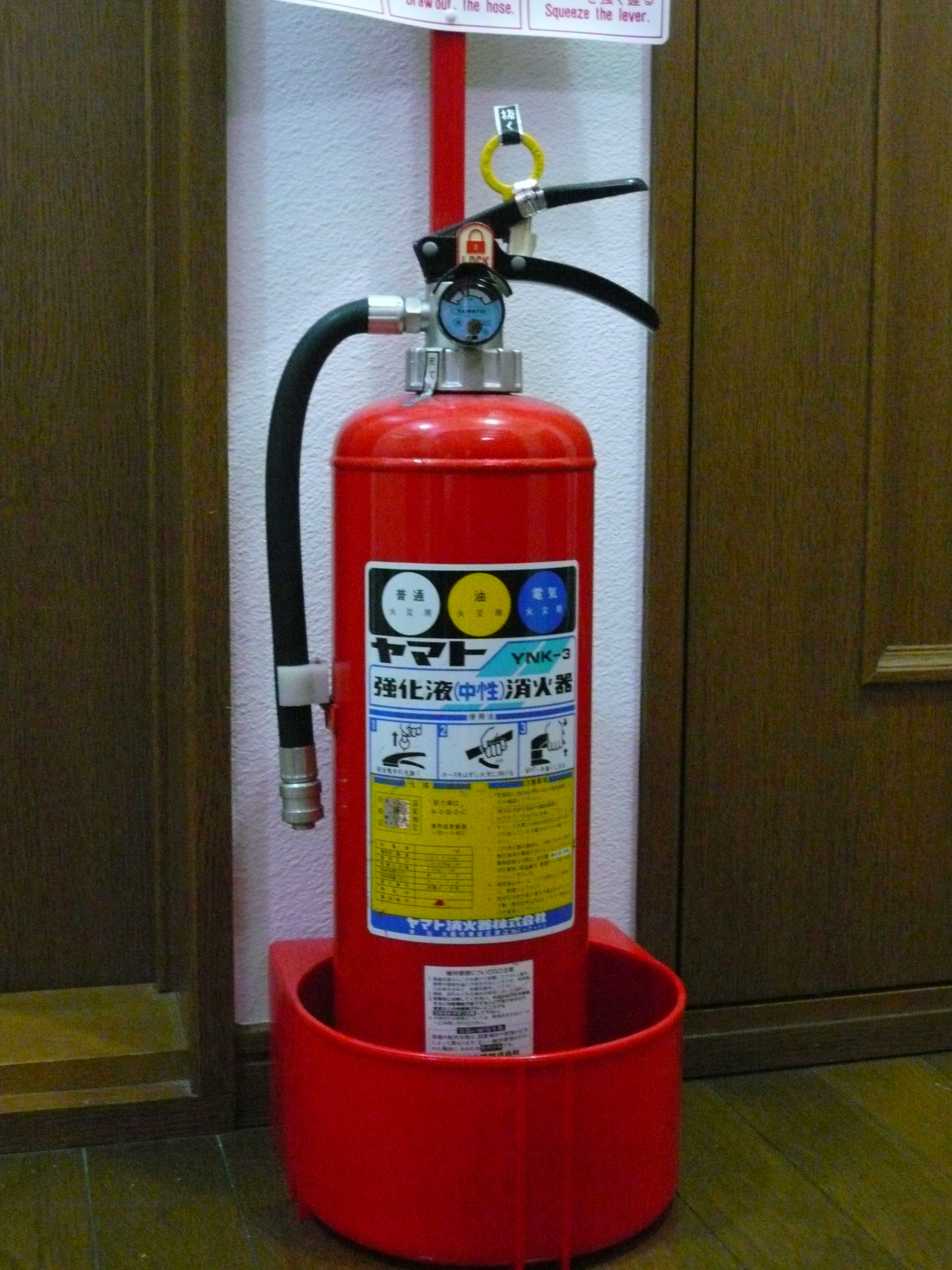 Fire extinguisher